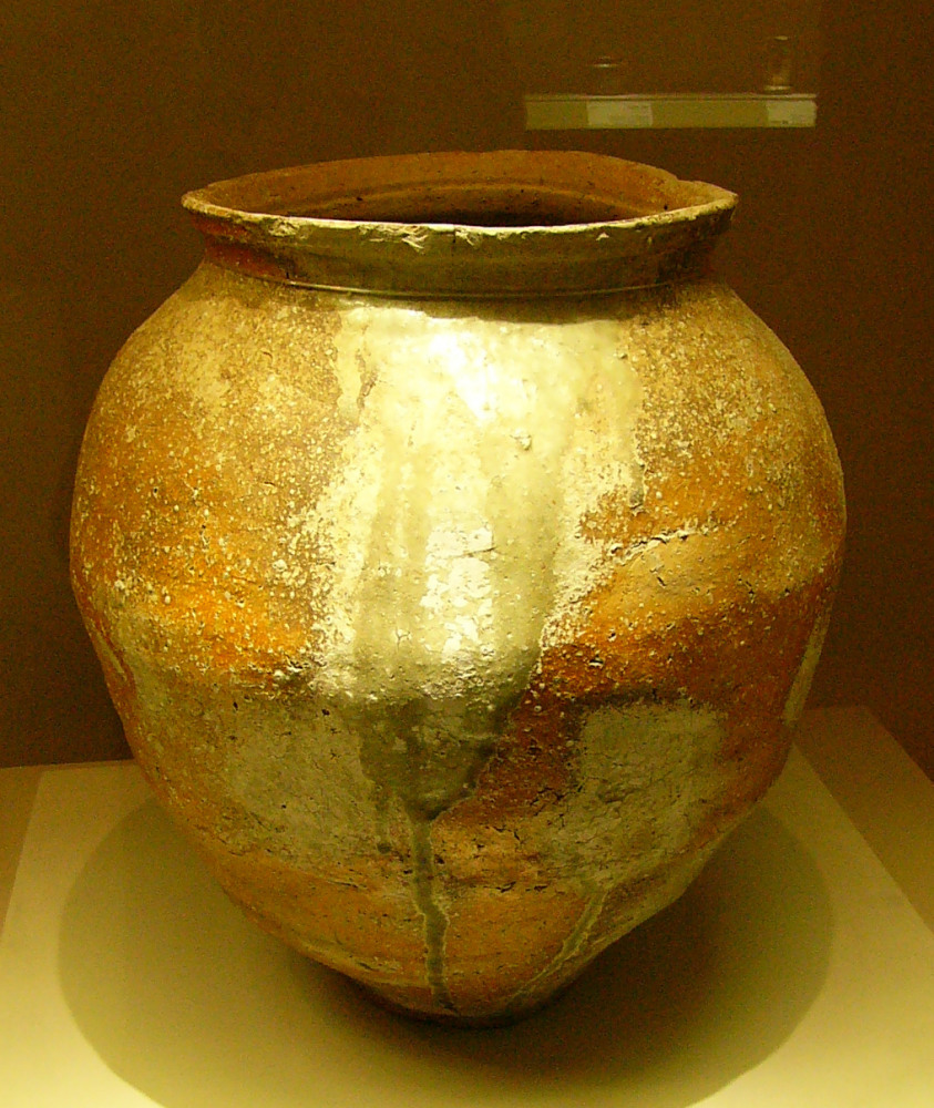 Jar, Shigaraki ware, Pottery natural glaze, 16th century, Height 55.0cm, The Museum of Oriental Ceramics Osaka, OSAKA, Japan